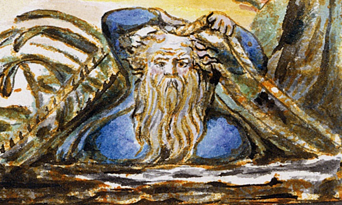 Cropped version of Songs of Innocence and of Experience, copy Y, object 47 (Bentley 47, Erdman 47, Keynes 47) "The Human Abstract"